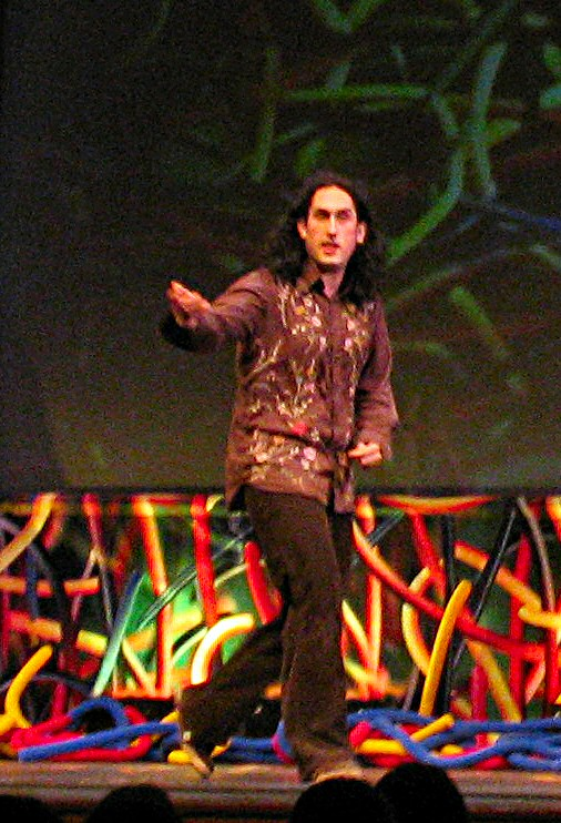 Ross Noble performing Noodlemesiter at the Edinburgh International Conference Centre. Part of the w@Edinburgh Festival Fringe. Date: 18th August 2004 20:23 9 Photograph: ed g2s • talk